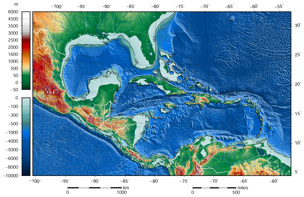 The shaded relief bathymetry and land map of the Caribbean Sea and Gulf of Mexico area. It is contoured at -100 m depth. The map was created using the Generic Mapping Tools, GMT, version 5.1.1.